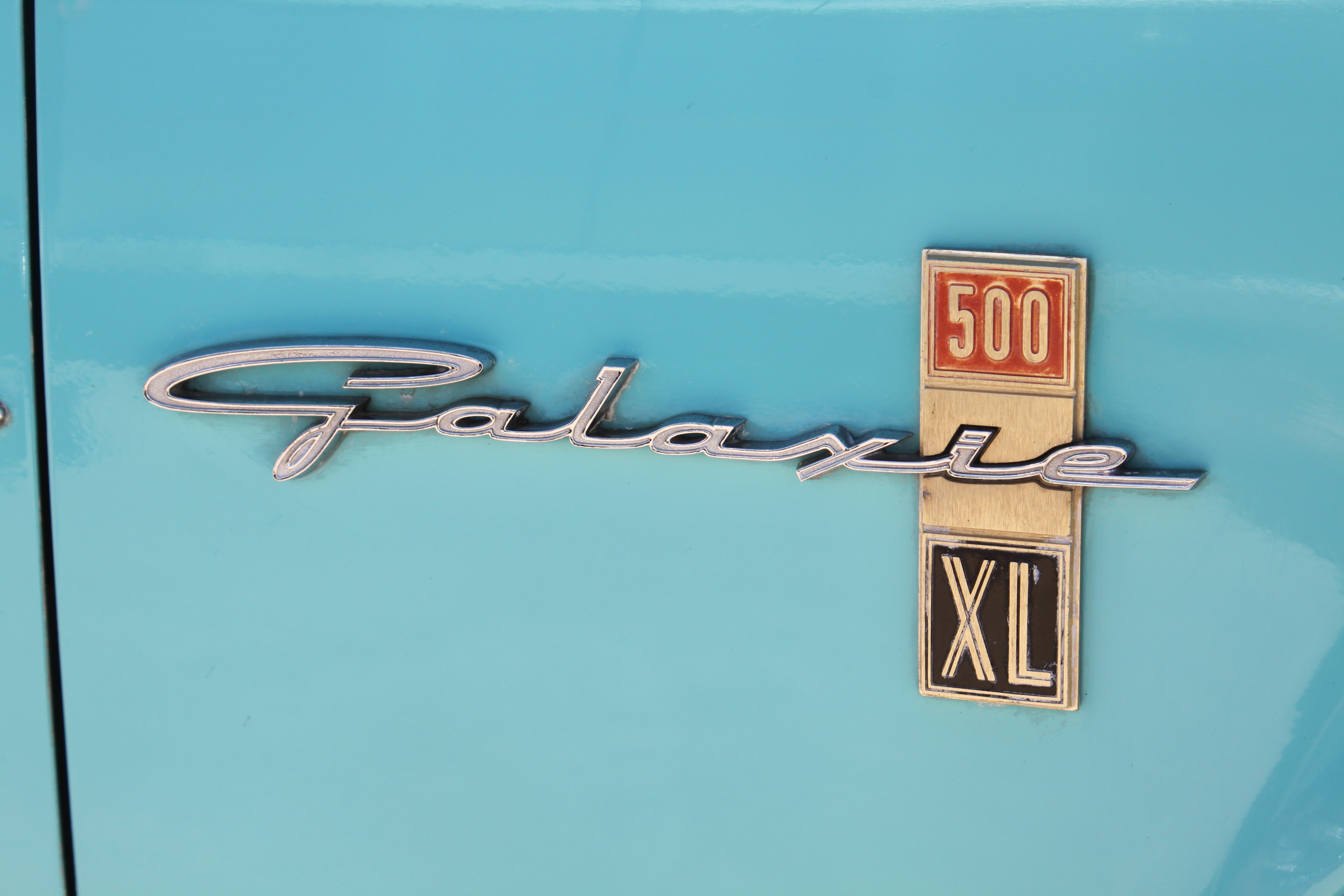 American Car Show, Castle Hill, NSW 2015